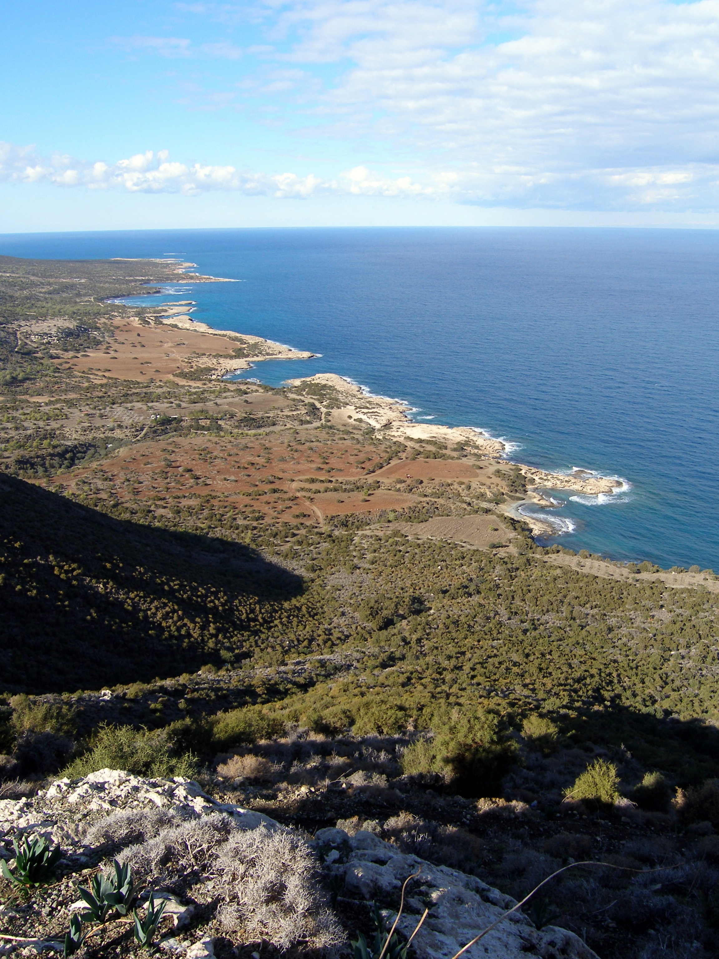 View from Akamas, Cyprus, towards its cape.